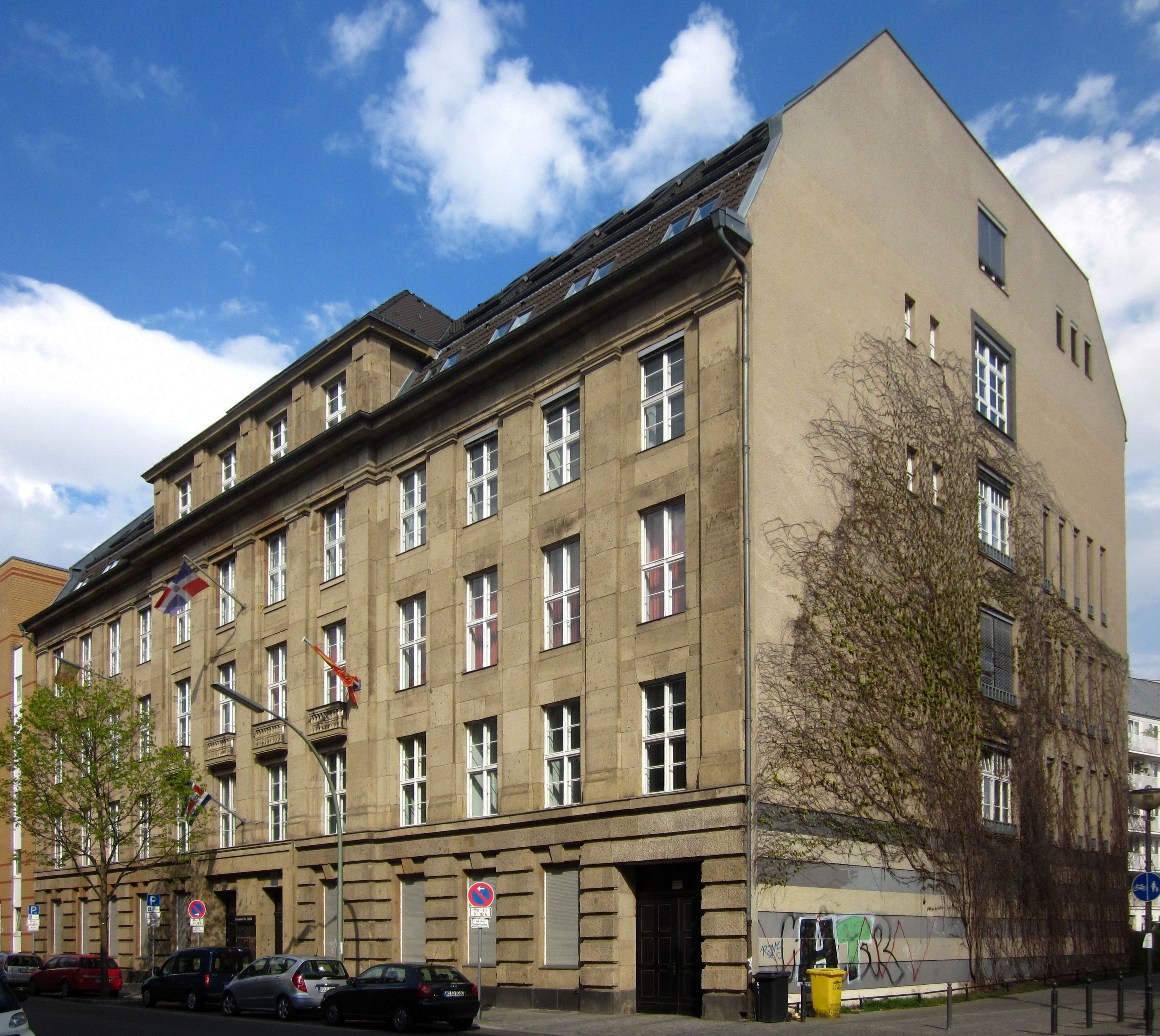 The House Dessau at Dessauer Straße No. 28-29 in Berlin-Kreuzberg. It was constructed in 1898/1909 to designs by Lachmann & Zauber and Johannes Kraaz as a commercial building. Among other institutions, the building used to houses the embassies of Senegal, Montenegro, the Dominican Republic, and Costa Roca in the Federal Republic of Germany. It has been designated as a cultural heritage monument.